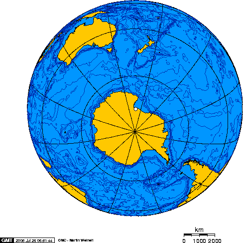 Orthographic projection centered over Ross Island